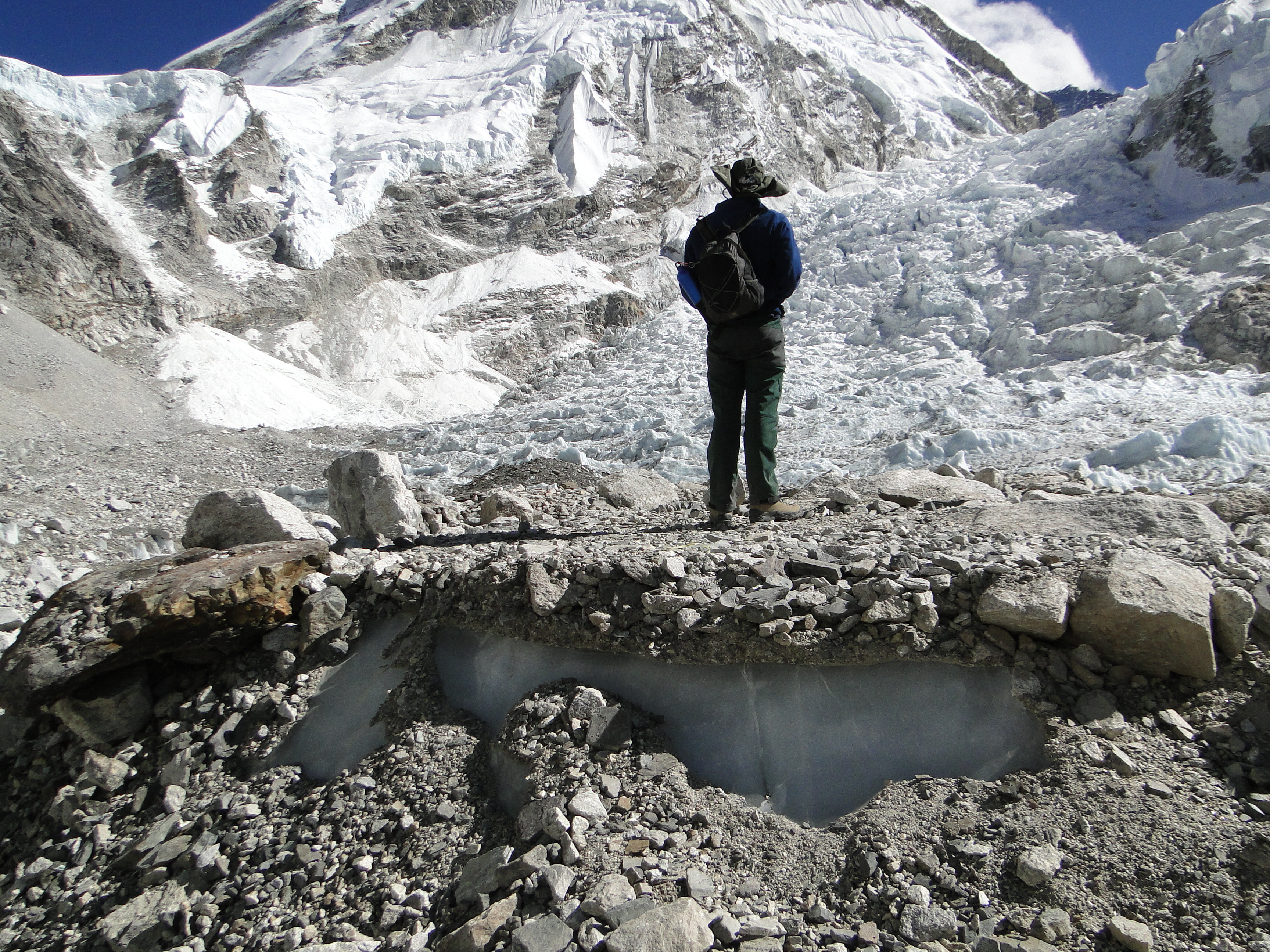 A temporary tent platform on the Khumbu glacier at South Everest Base Camp, Nepal. Note the ice layer under the unstable rock surface. The Khumbu Icefall is seen in the background.